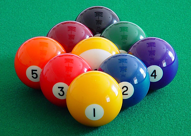 A correct nine-ball rack.